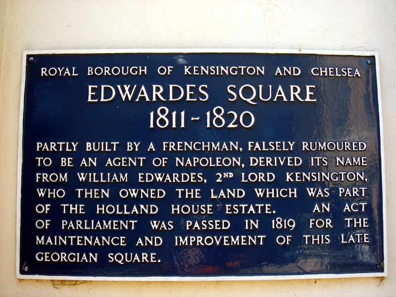 Edwardes Square plaque on the Gardener's Lodge, South Edwardes Square, London W8